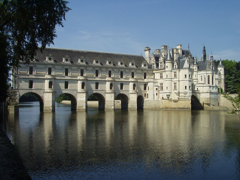 The Château of Chenonceau, France